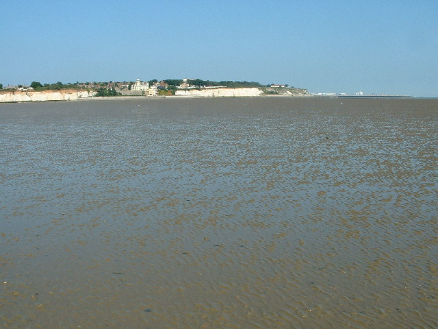 Pegwell Bay Mudflats. View looking north east towards Pegwell village